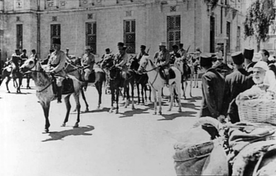 Damascus, Syria. 1941-09. French Circassian Cavalry assembling outside the railway station preparing to escort senior Vichy French officers through the city on their way to making surrender arrangements for the Axis forces.